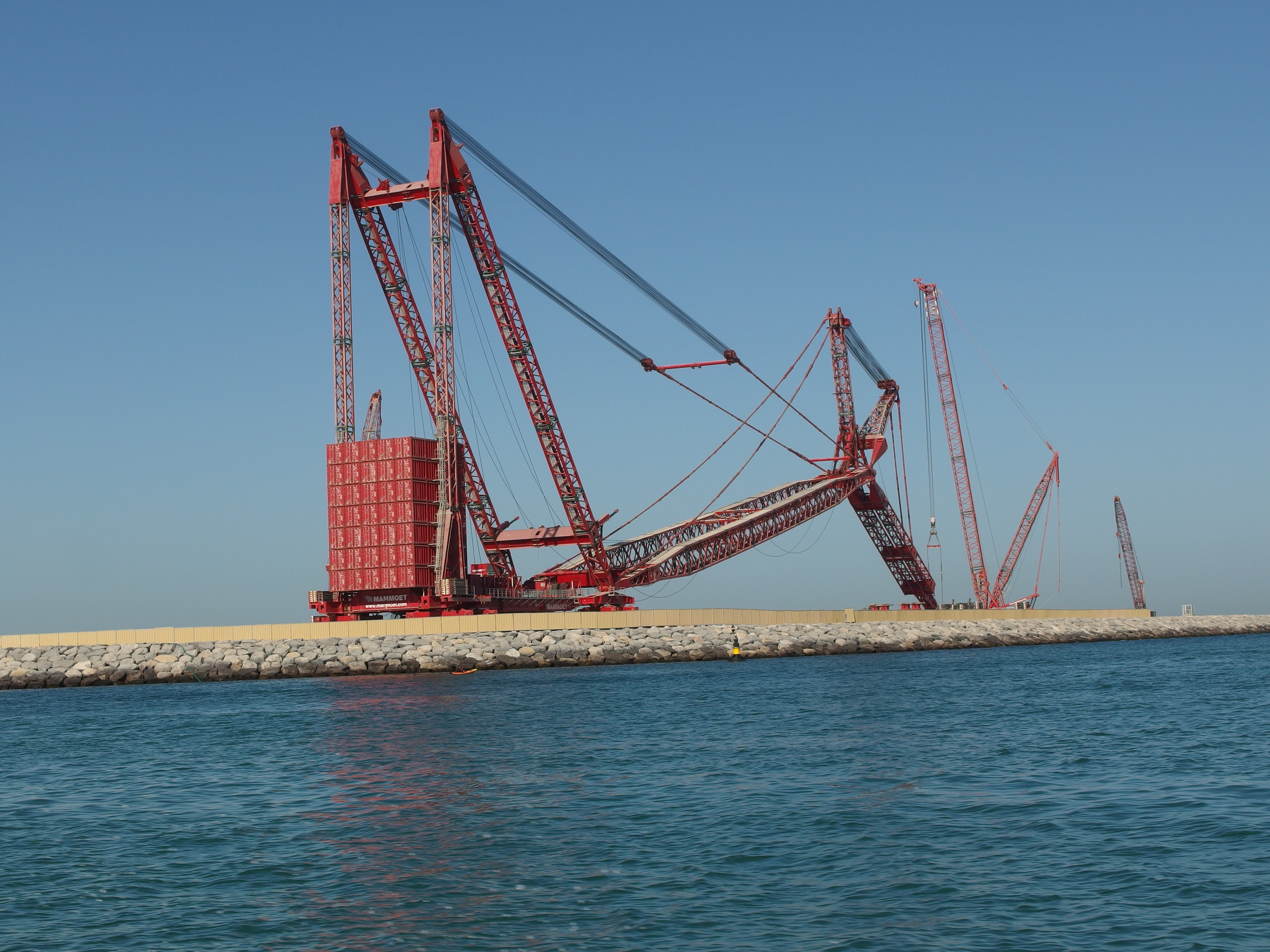 Persian Gulf @ Yellow Boats Tour @ Dubai